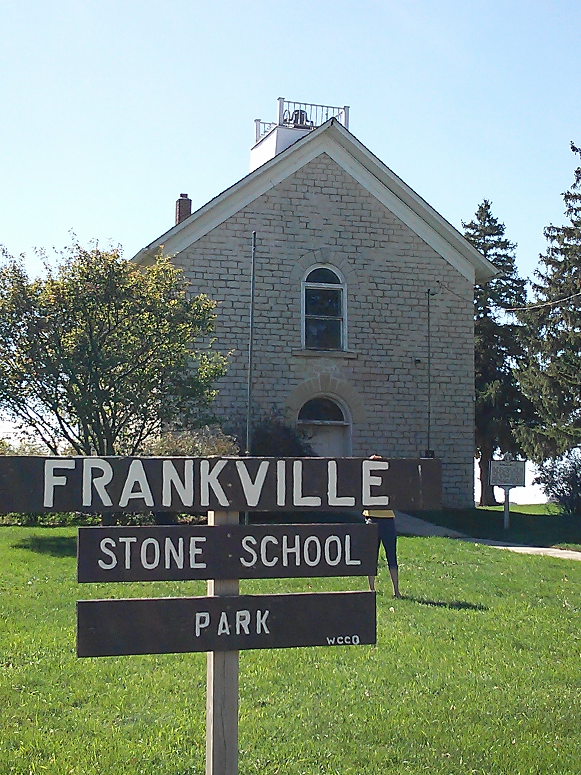 Frankville School